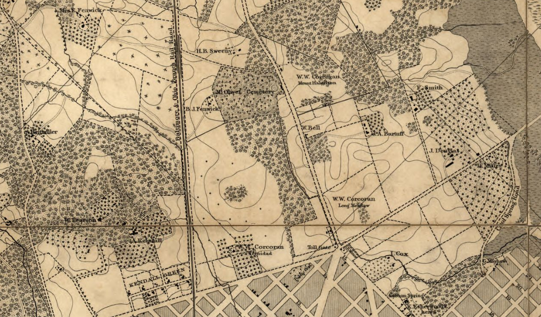 1861 Map Detail showing the Corcoran properties near Boundary Street NE and H Street NE